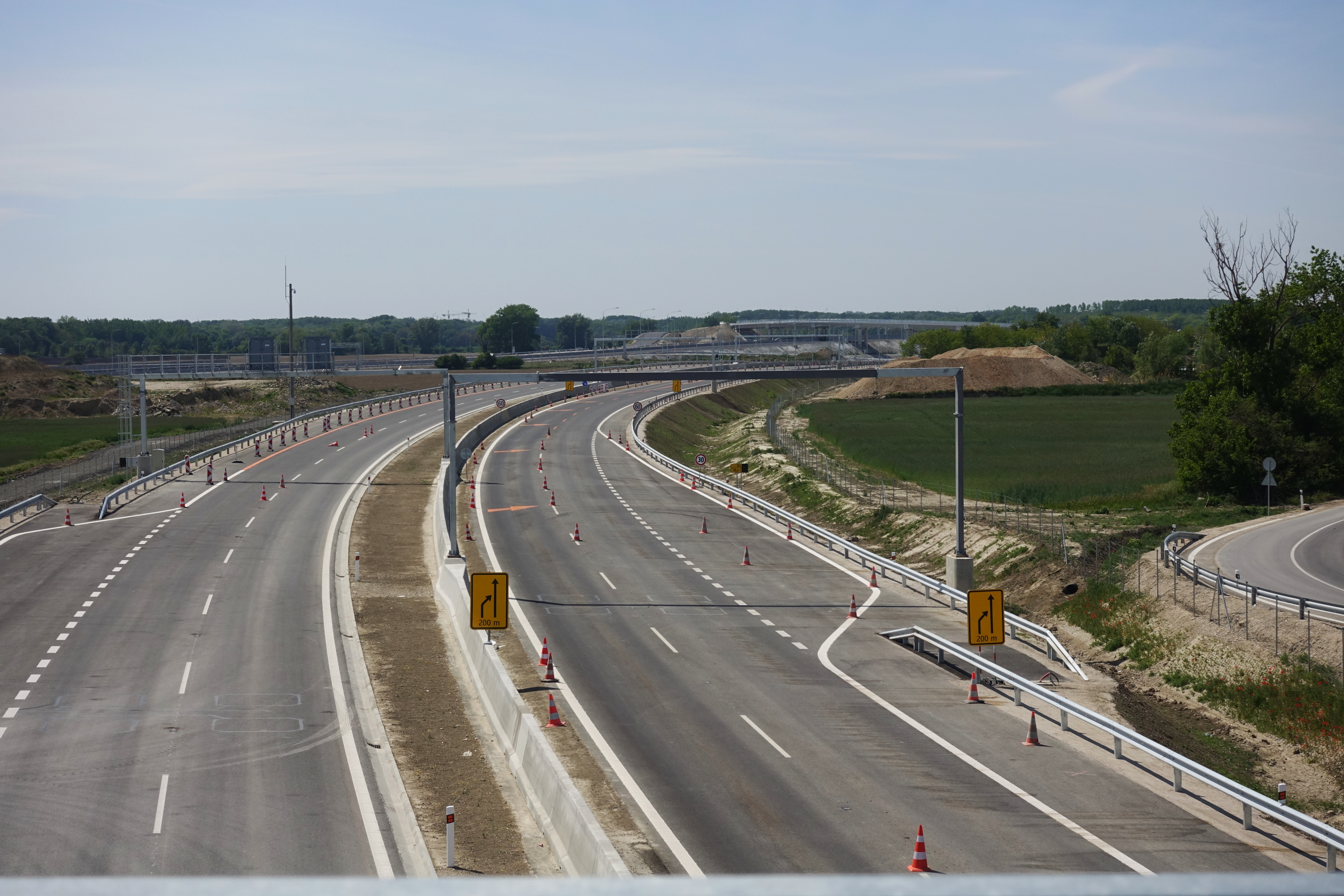 D4 highway - outer bypass of Bratislava, near the D4/R7 Ketelec highway junction under construction (5/2020). West view. In the background, the body of a level crossing is visible.